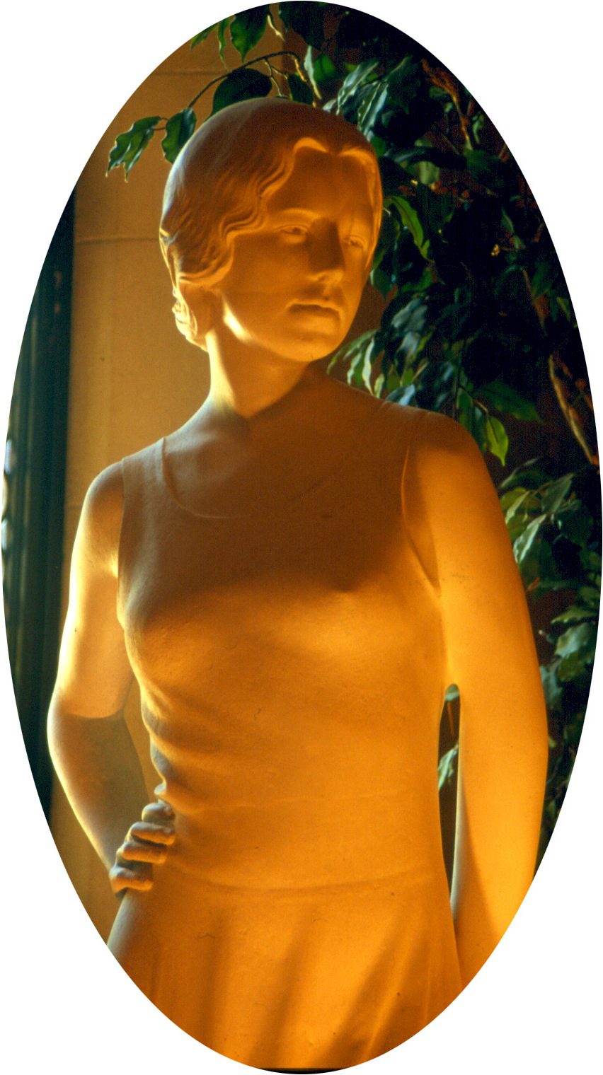 photo by Einar Einarsson Kvaran Jo Davidson the sculptor of this statue of Lydie Marland